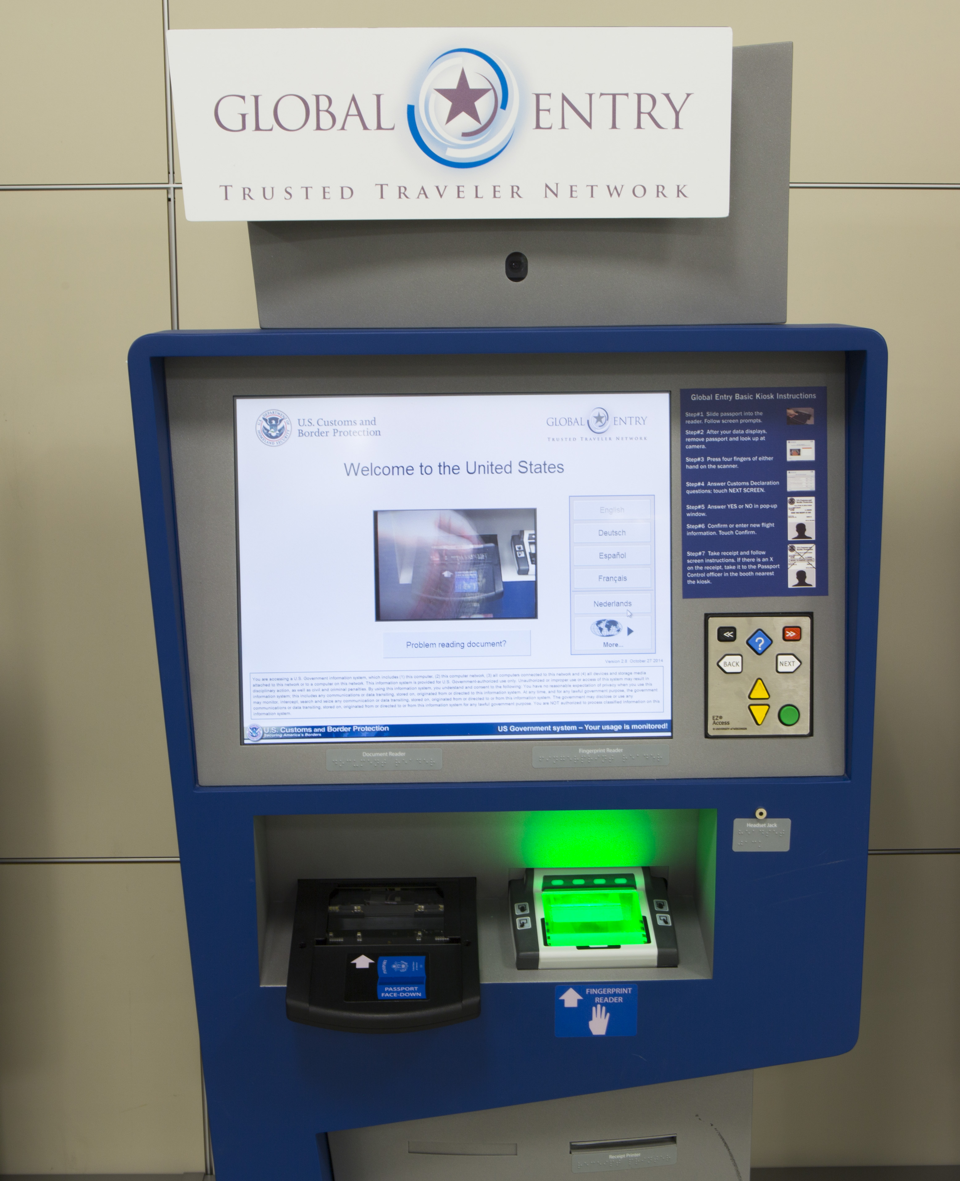 Global Entry and APC Kiosks, located at international airports across the nation, streamline the passenger's entry into the United States. Photo by James Tourtellotte